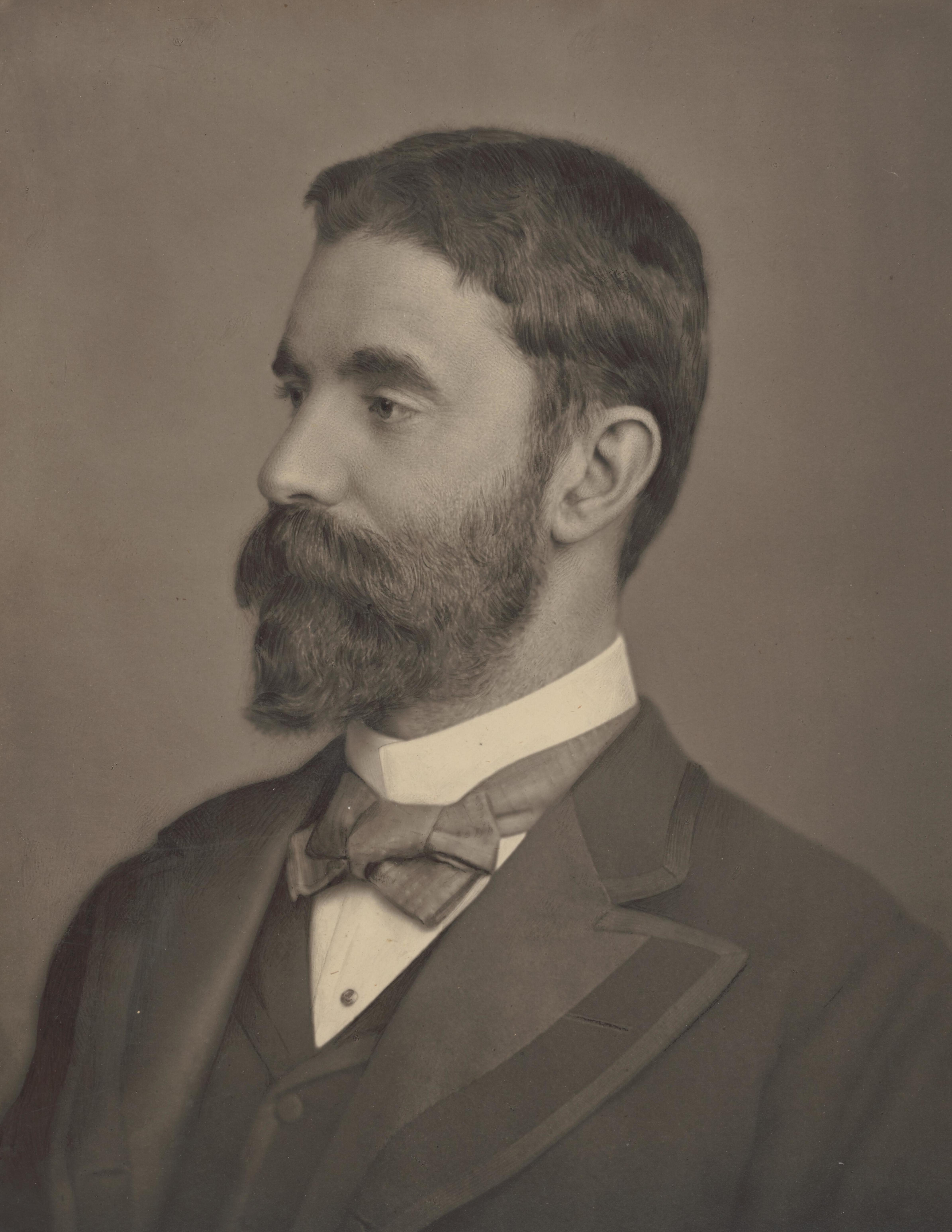 Photographic portrait of Alfred Deakin